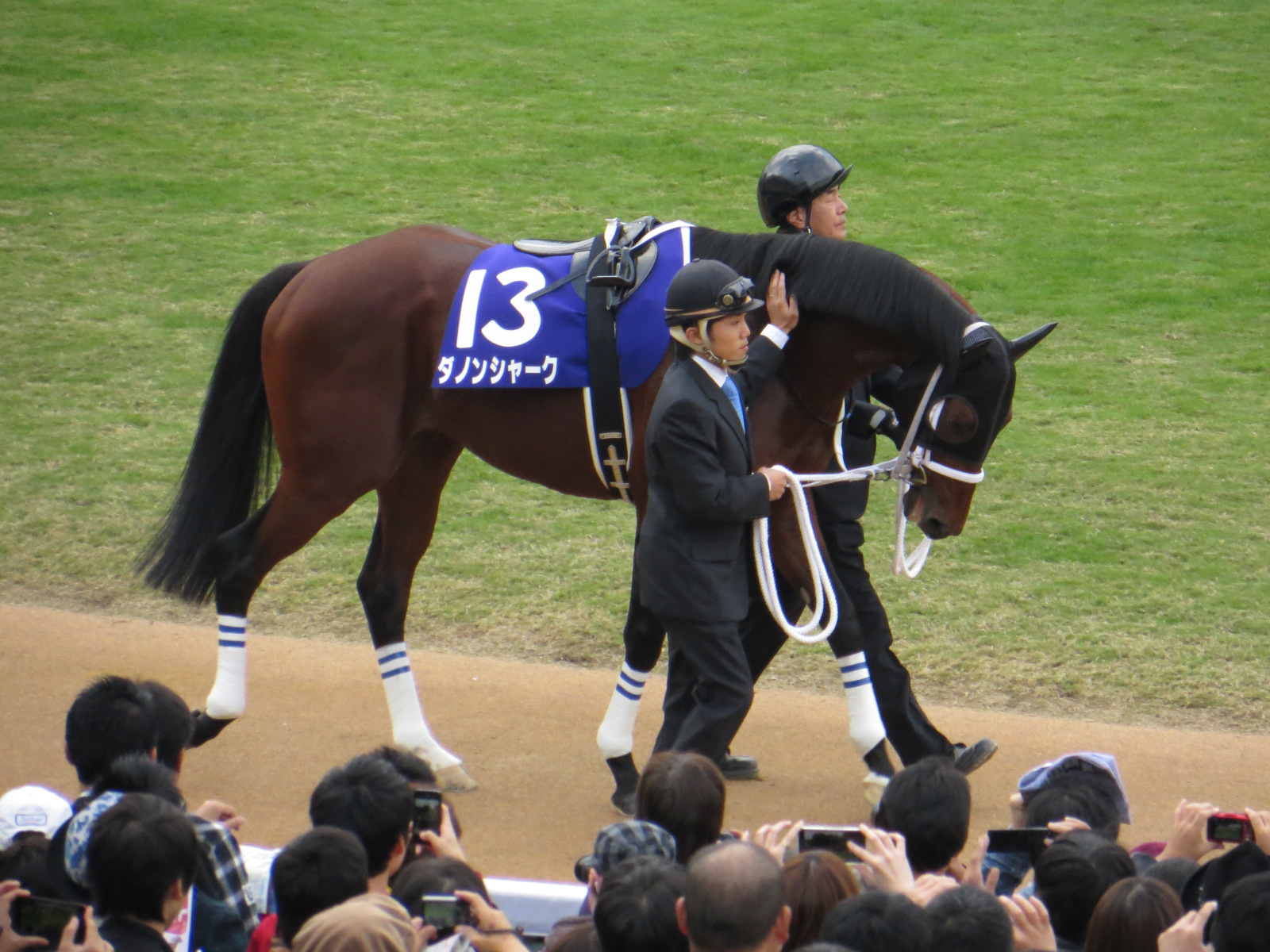 Danon Shark (Racehorse of Japan)